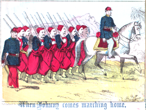 Illustration of Zouaves from broadside of "When Johnny Comes Marching Home".